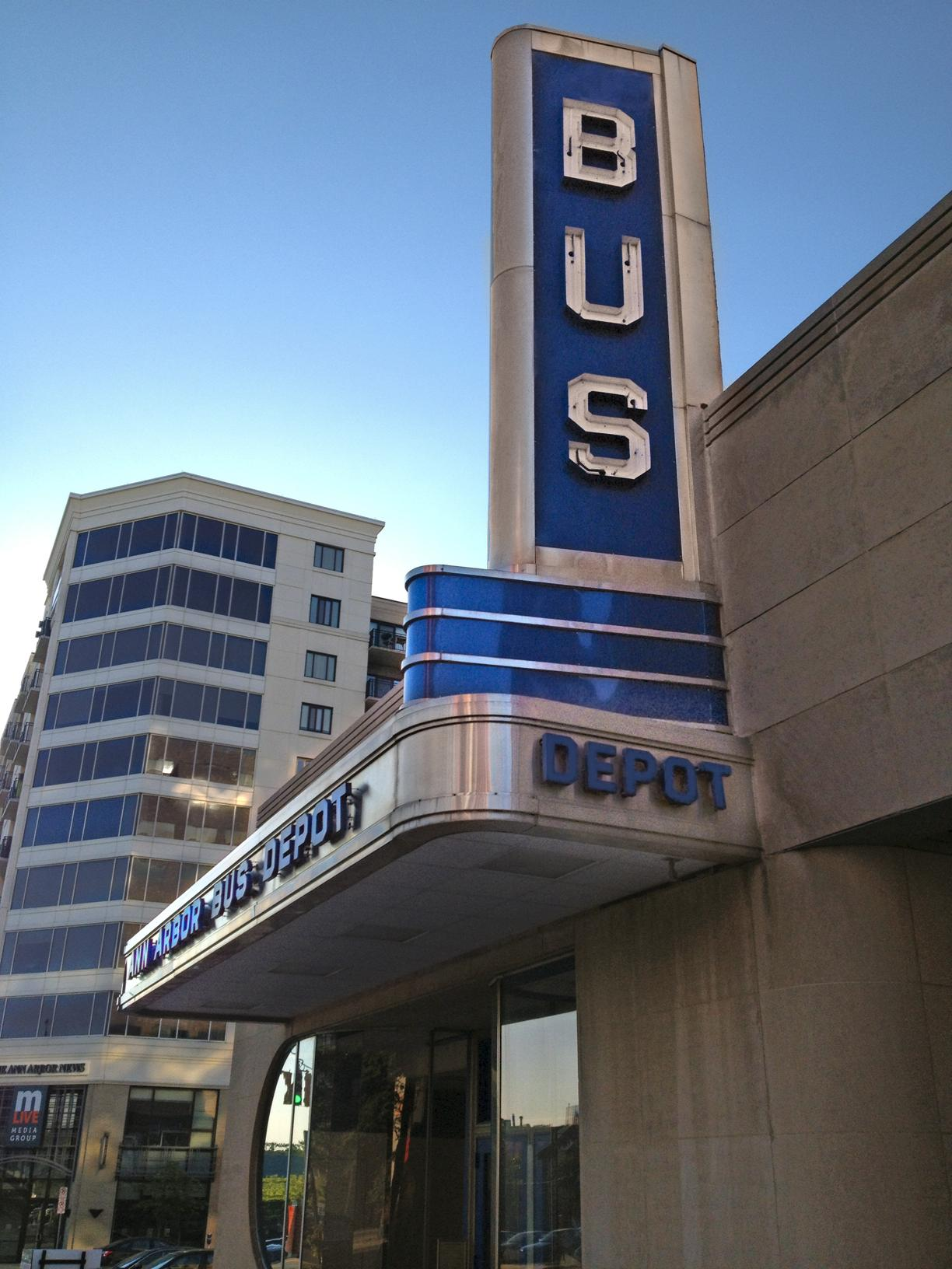 The vintage marquee of the venerable Ann Arbor Bus Depot, now operated by Greyhound Bus Lines. (W. Huron Street, Ann Arbor, MI)